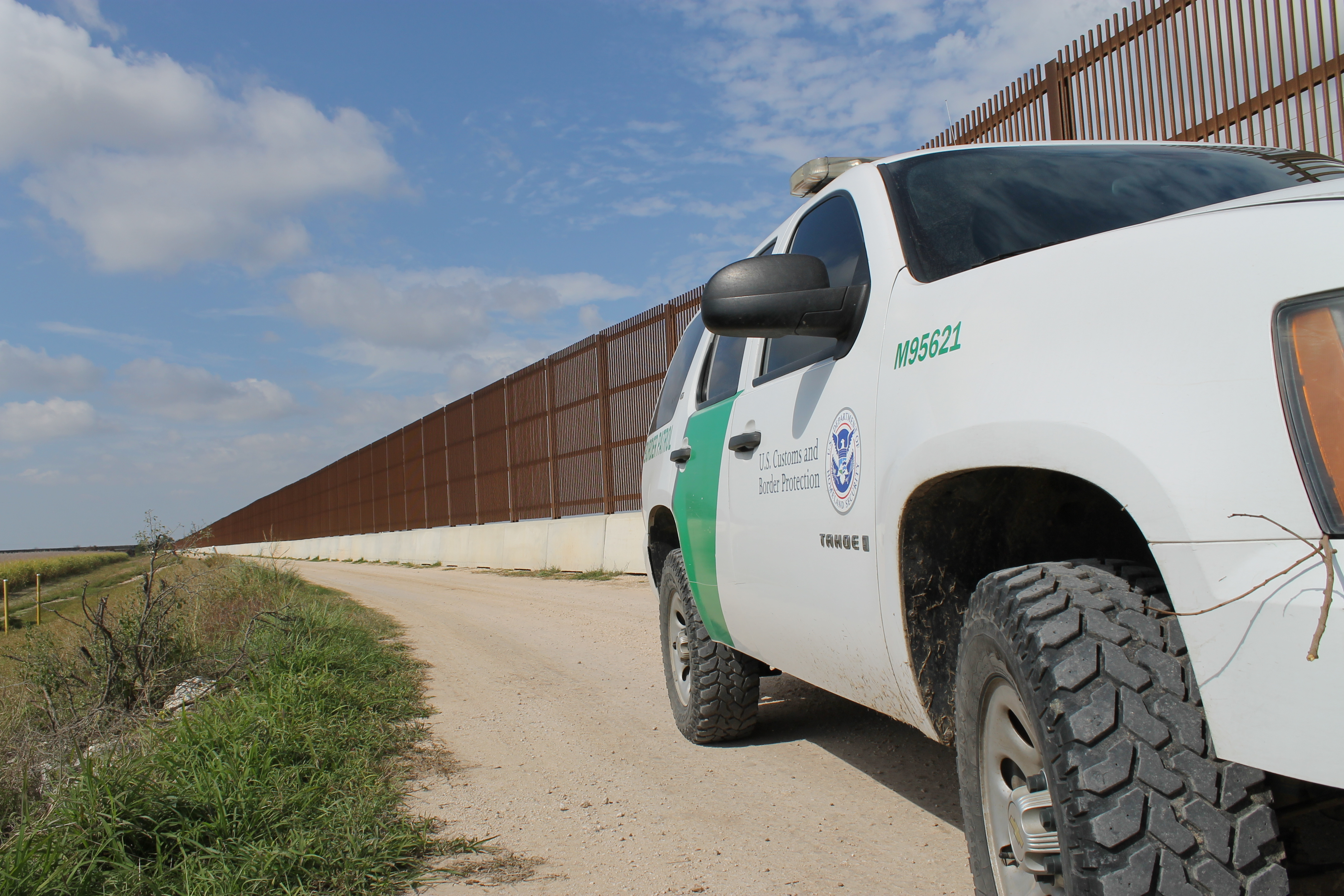 A U.S. Customs and Border Protection vehicle stands watch by one of the many walls constructed near the border, along the Rio Grande River, to disrupt the flow of illegal contraband and aliens across our border. The Georgia National Guard volunteered to deploy to the Rio Grande Valley in Texas for all of 2014 to support the Border Patrol with aerial detection and monitoring as part of Operation River Watch II on the U.S. border with Mexico in Texas. (Georgia Army National Guard photo by Maj. Will Cox/Released)